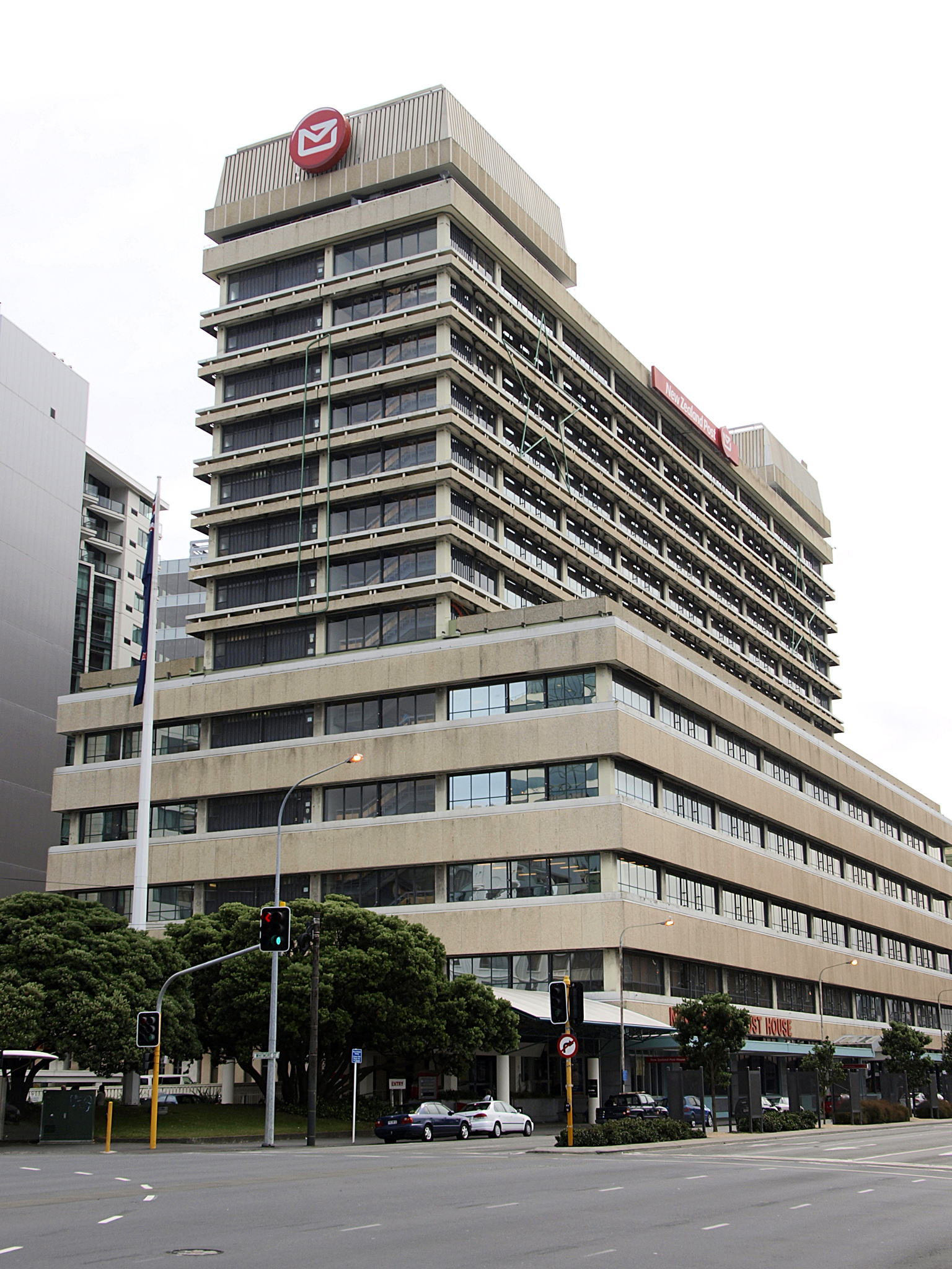 New Zealand Post Building at 7 Waterloo Quay, Wellington